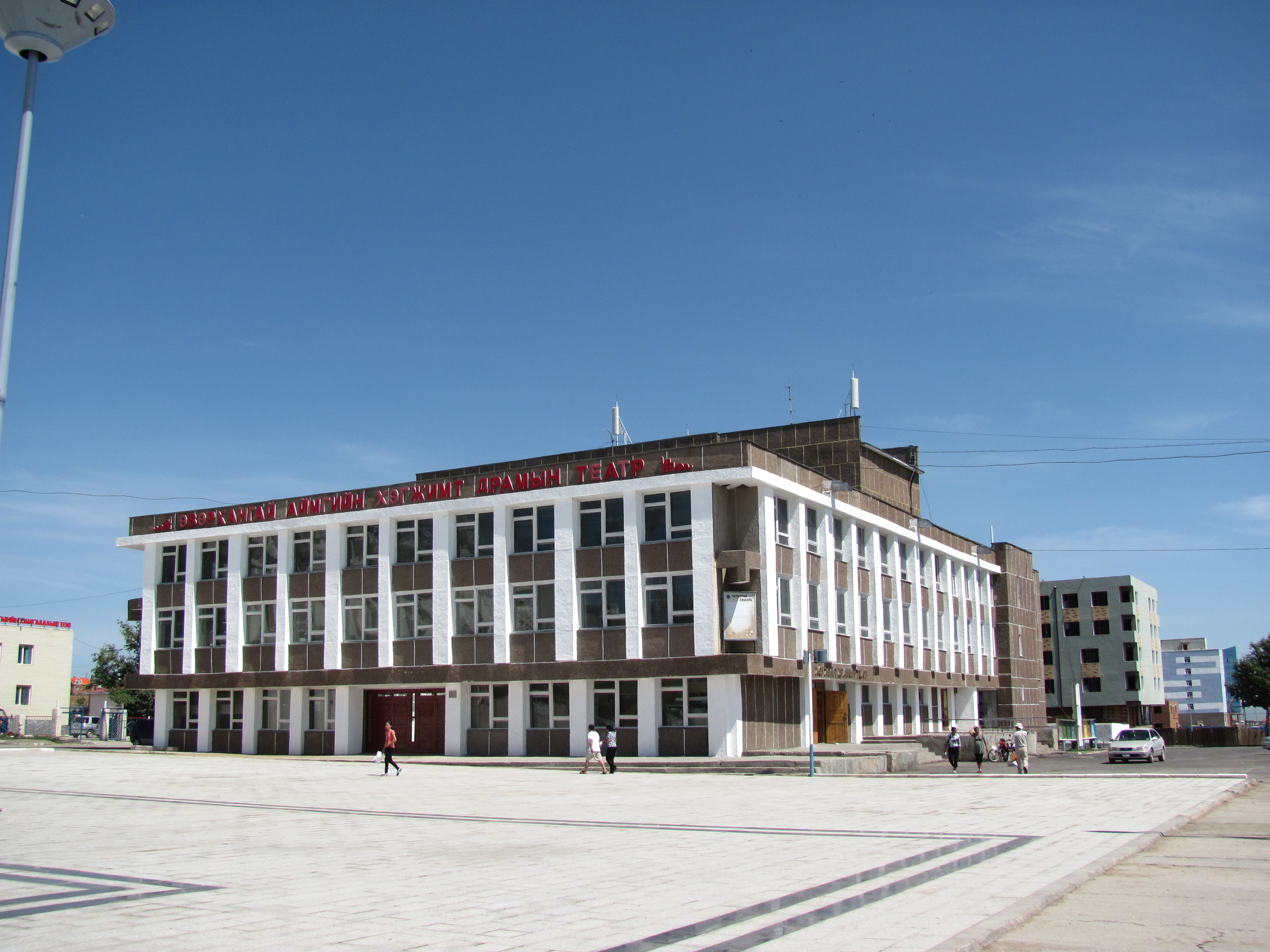 Theatre, Arvaikher, Mongolia.